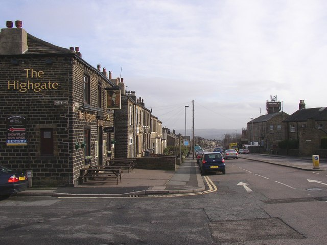 New Hey Road, Oakes, Lindley cum Quarmby (near Huddersfield) This early 19C turnpike road soon became lined with a ribbon development of houses, shops and pubs through what was the township of Lindley cum Quarmby, but eventually became part of the County Borough of Huddersfield.